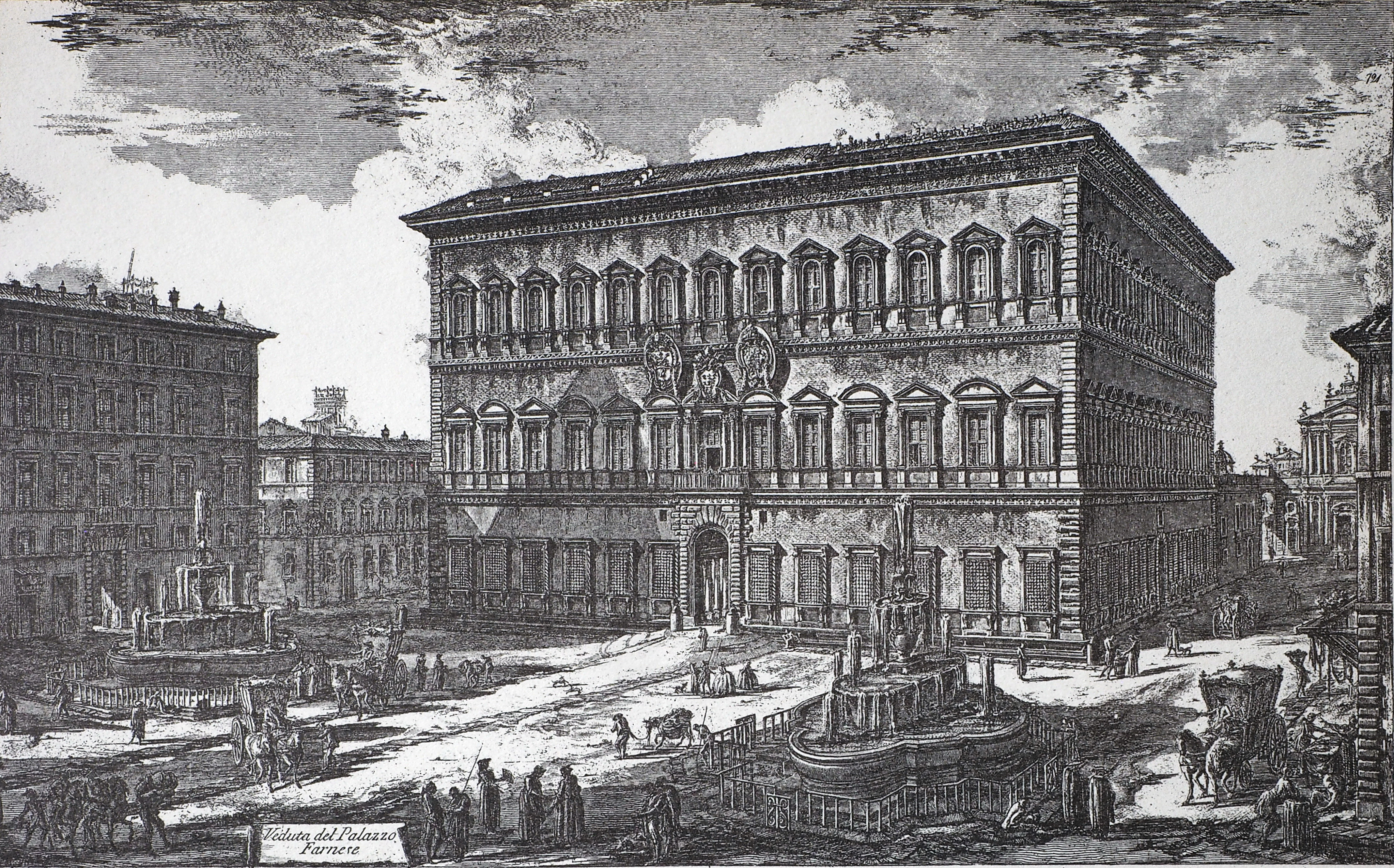 View of Piazza and Palazzo Farnese (Rome); Engraving by Giovanni Battista Piranesi about 1773